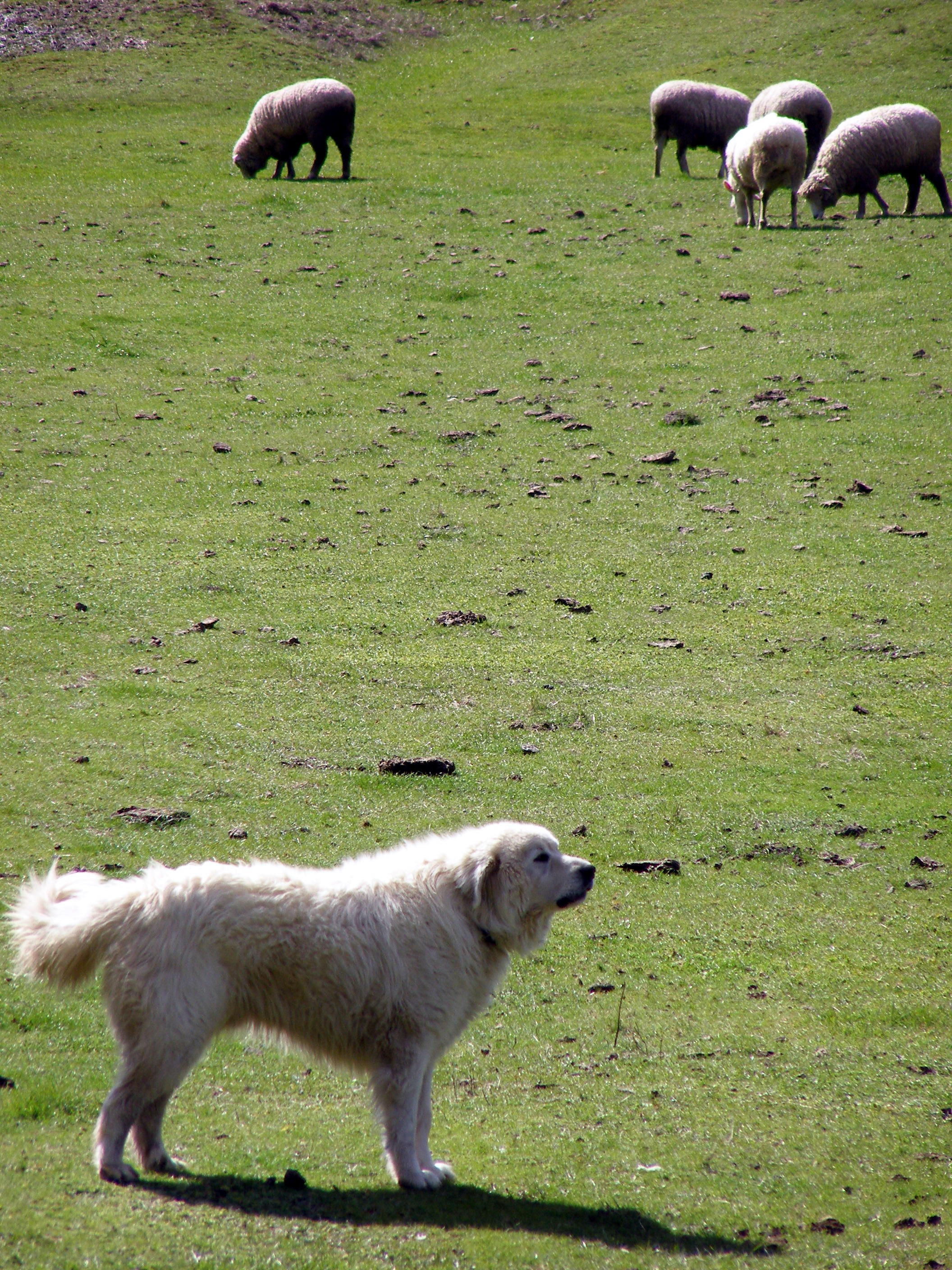 Pyrenean Mountain Dog.